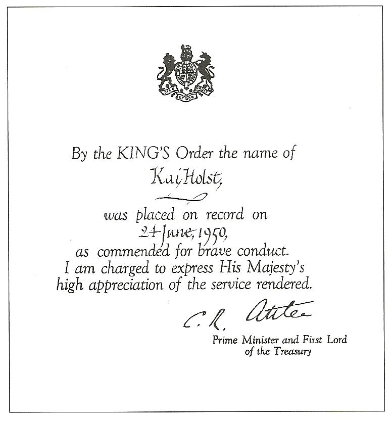 Scan of diploma issued by the british prime minister Attle on behalf of the king, that Kai Holst should be commended for brave conduct, signed 24 June 1950